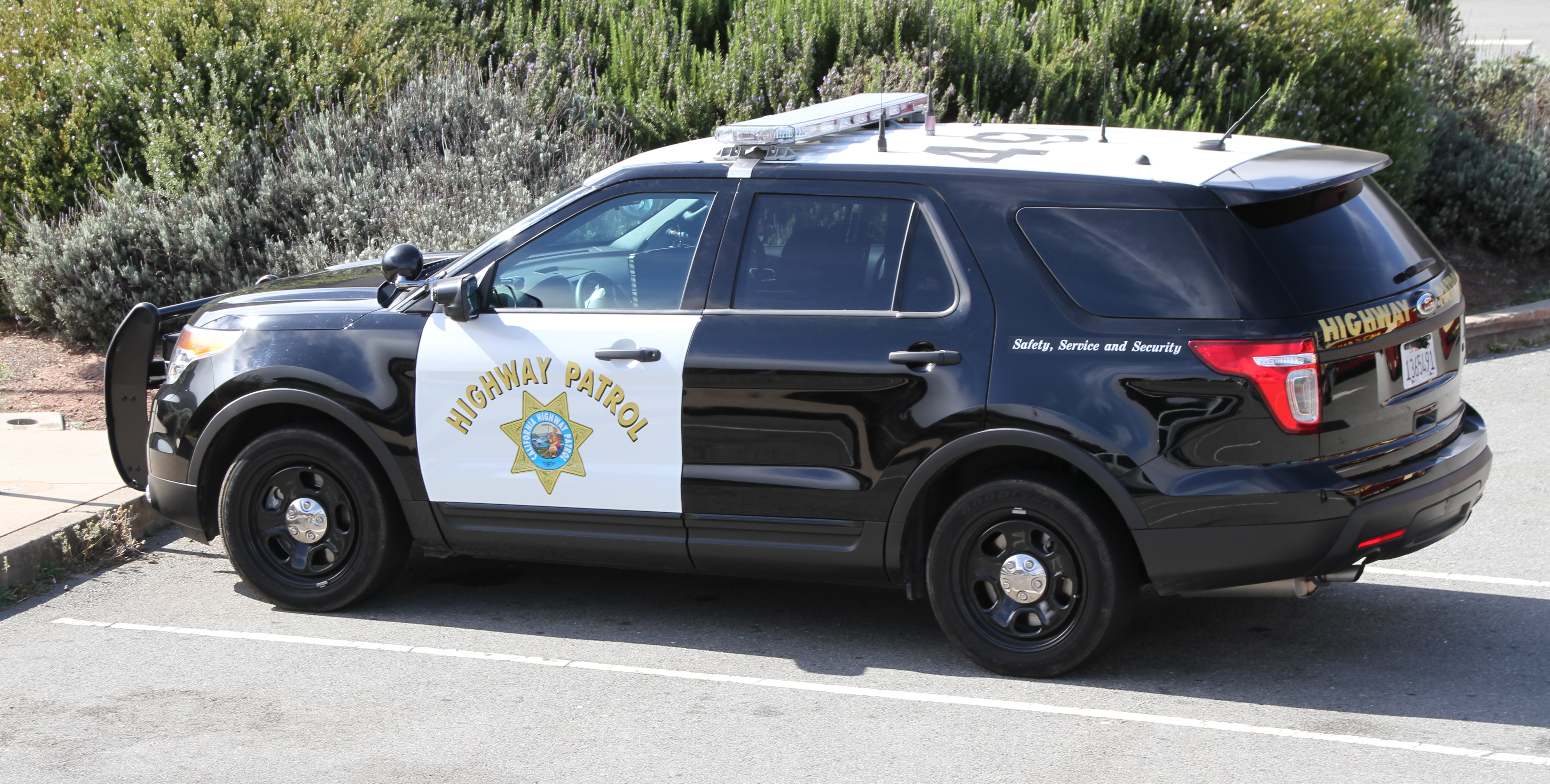 California Highway Patrol